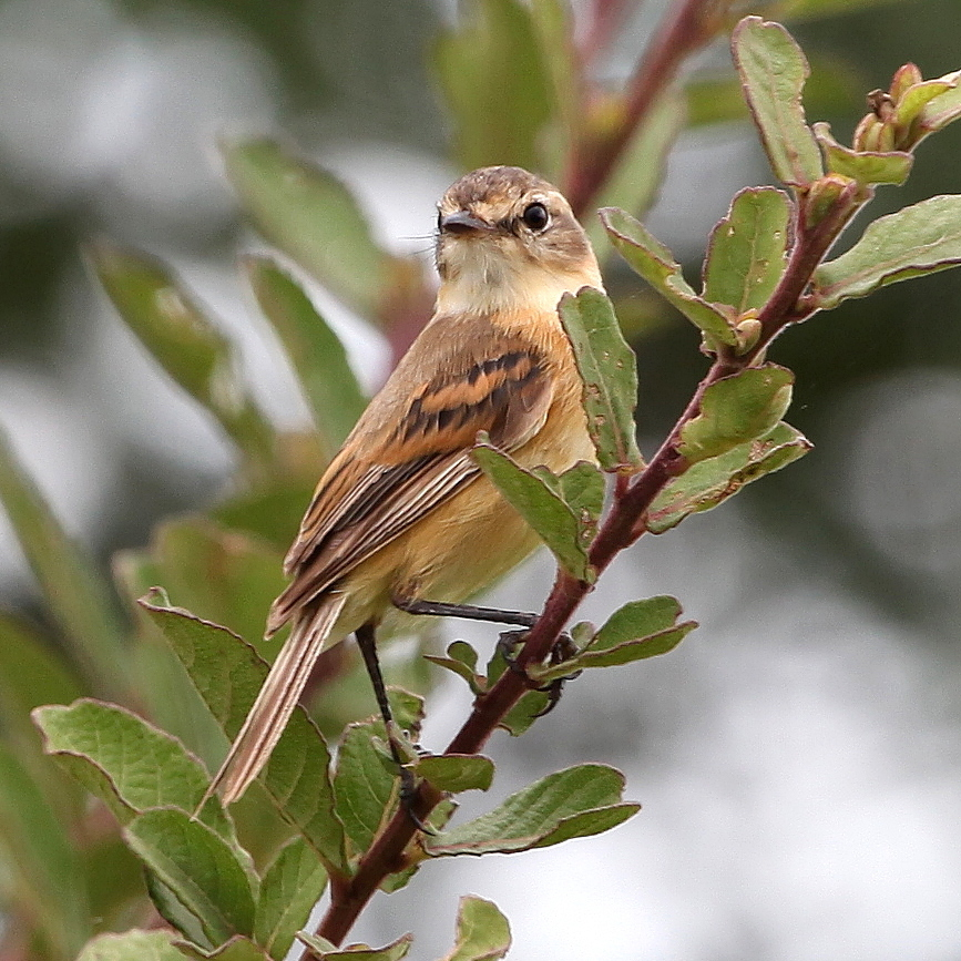 Bearded Tachuri at Bonito-MS-Brazil